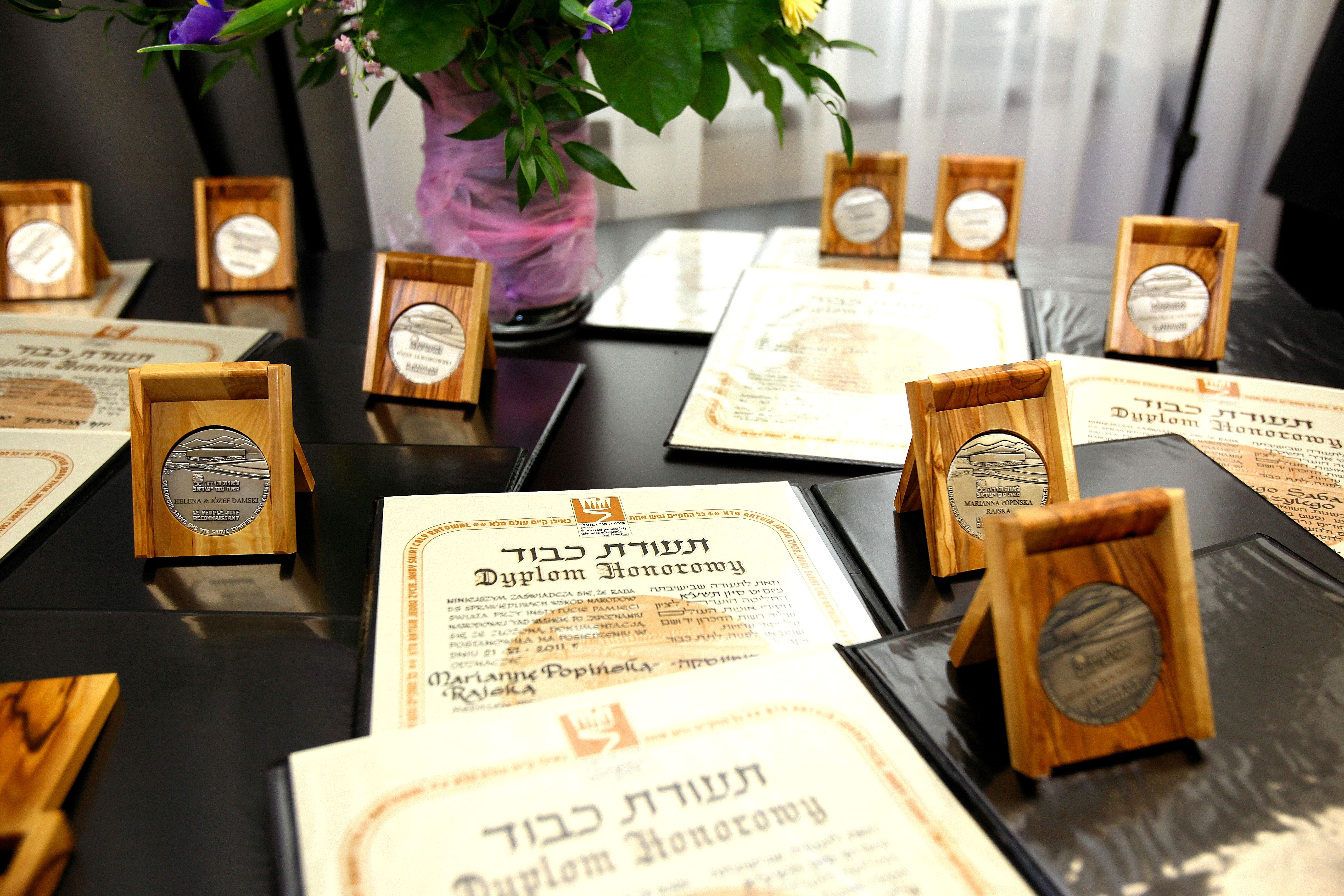 Righteous Among the Nations medals and diplomas handed over during a ceremony in the Polish Senate on 17th April 2012